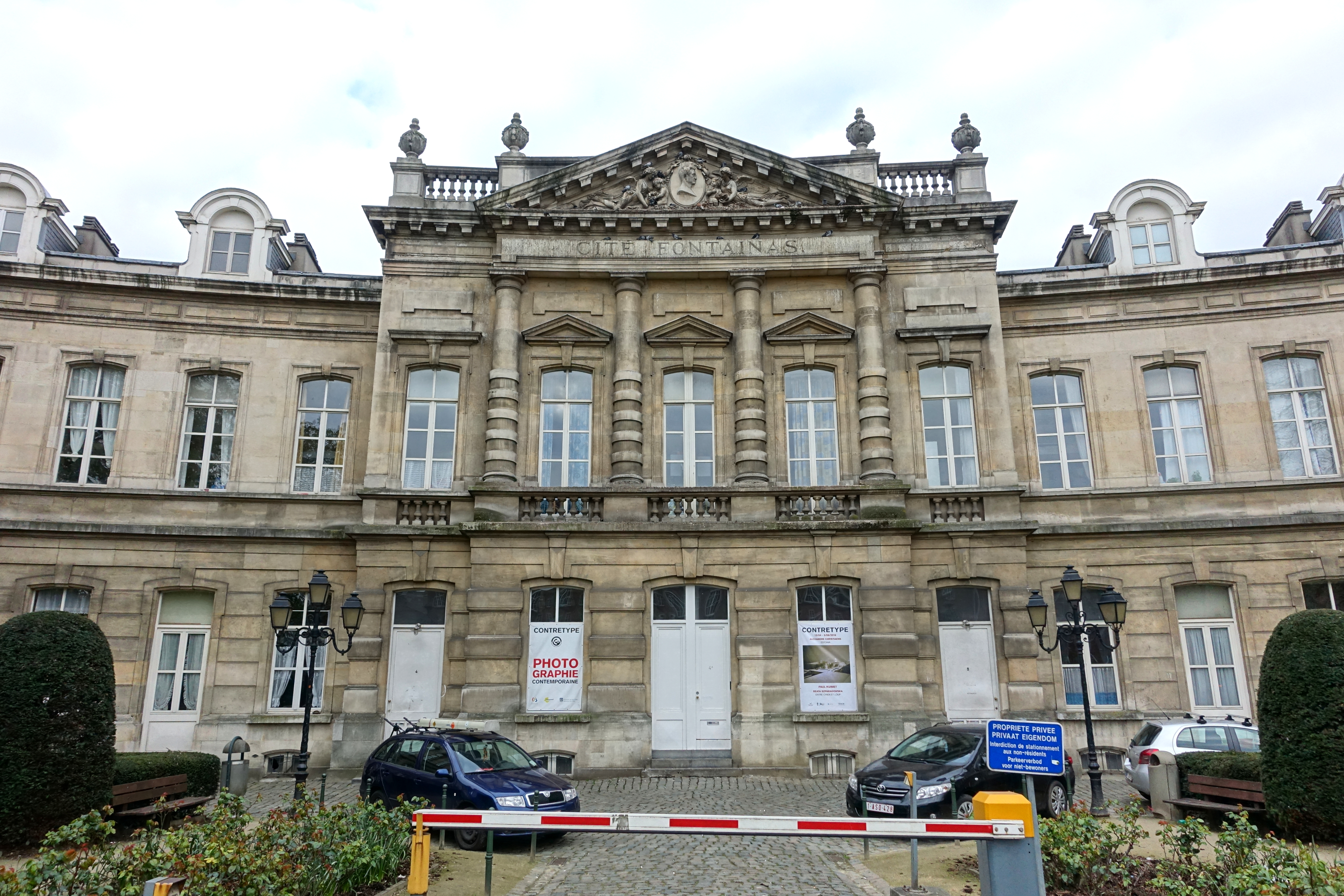 Cité Fontainas - Brussels, Belgium.